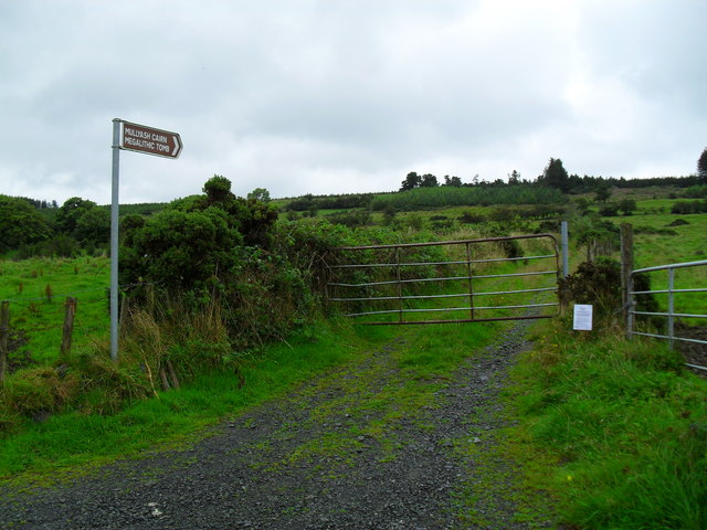 Lane to Mullyash Cairn In Tavanaskea townland.